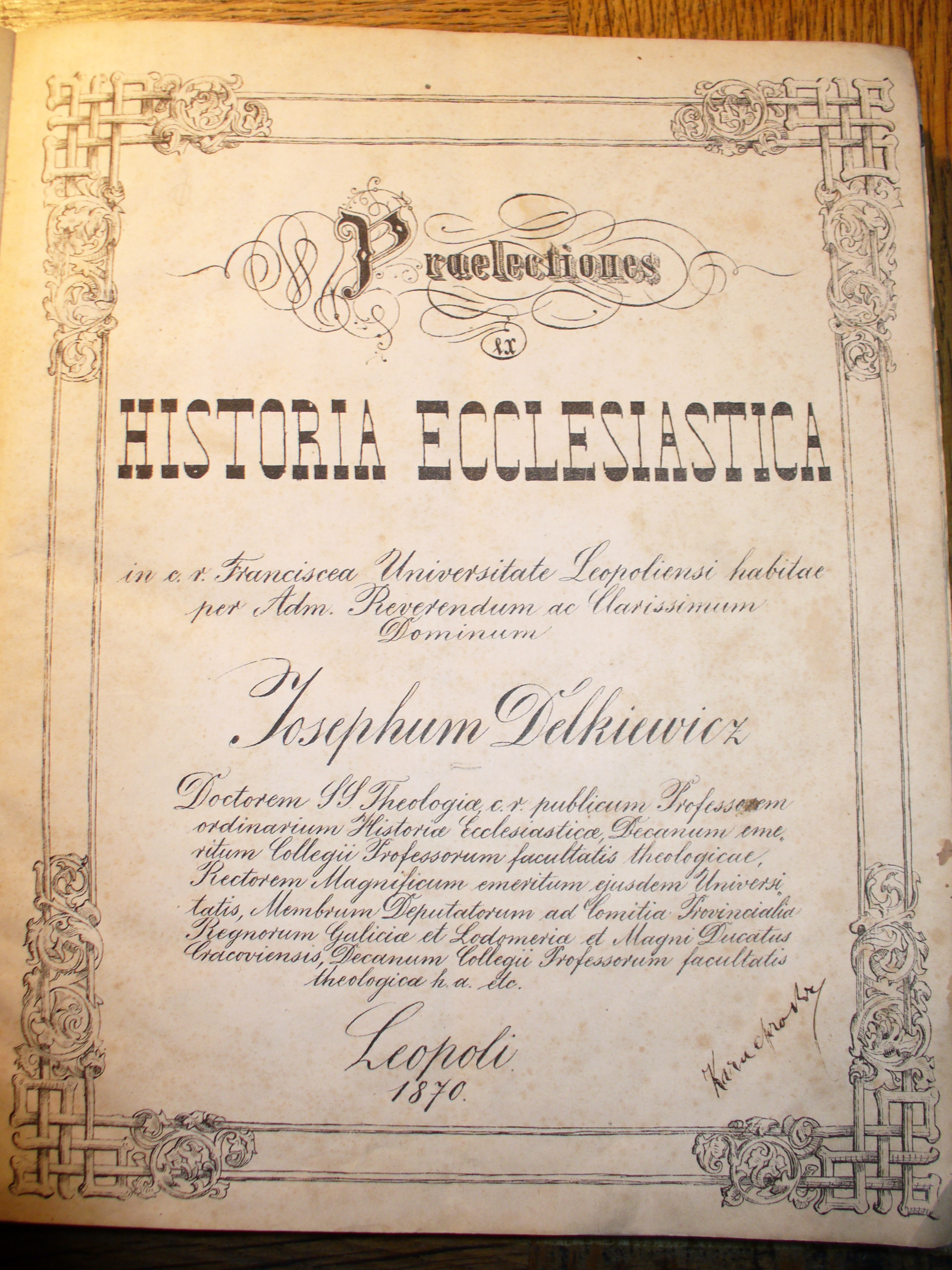 J.Delkevicz. Praelectiones ex Historia Ecclesiastica